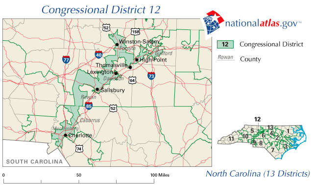 North Carolina 12th Congressional District (National Atlas)